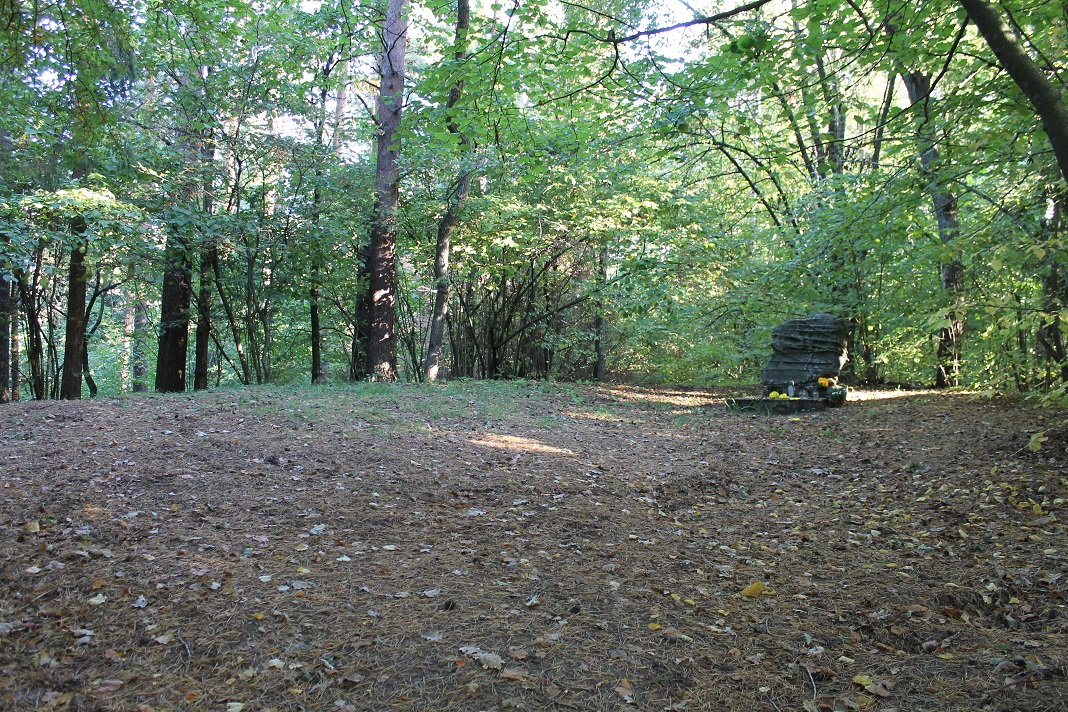 The Jews of Skuodas Holocaust graves near Dimitravas, Kretinga district, Lithuania